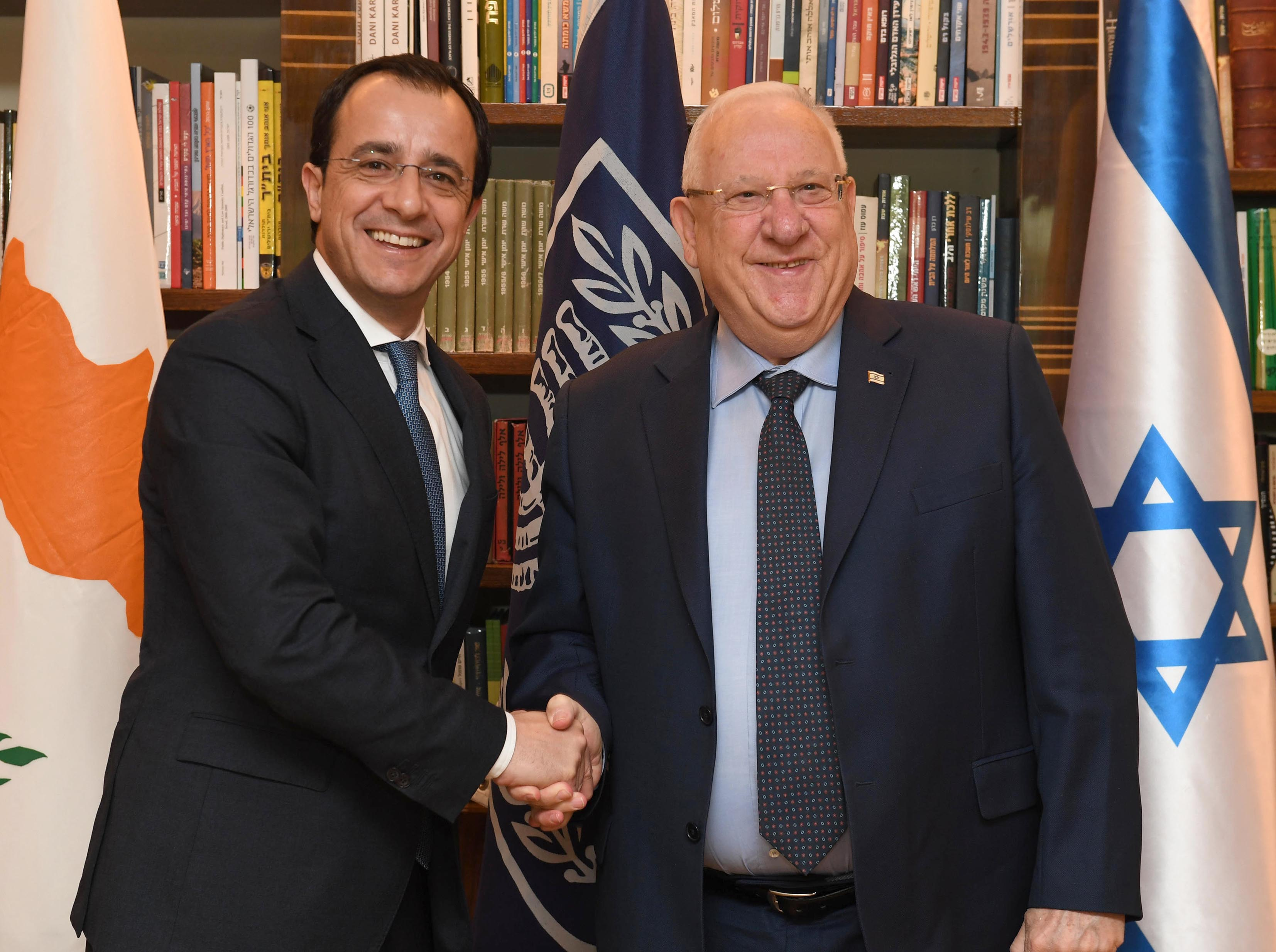 President of Israel, Reuven Rivlin, at a working meeting with the Minister of Foreign Affairs of Cyprus, Nikos Christodoulides (Greek). Thursday, March 22, 2018. Photo Credit: Mark Neyman / GPO. Depicted people: Reuven Rivlin and Q50171551